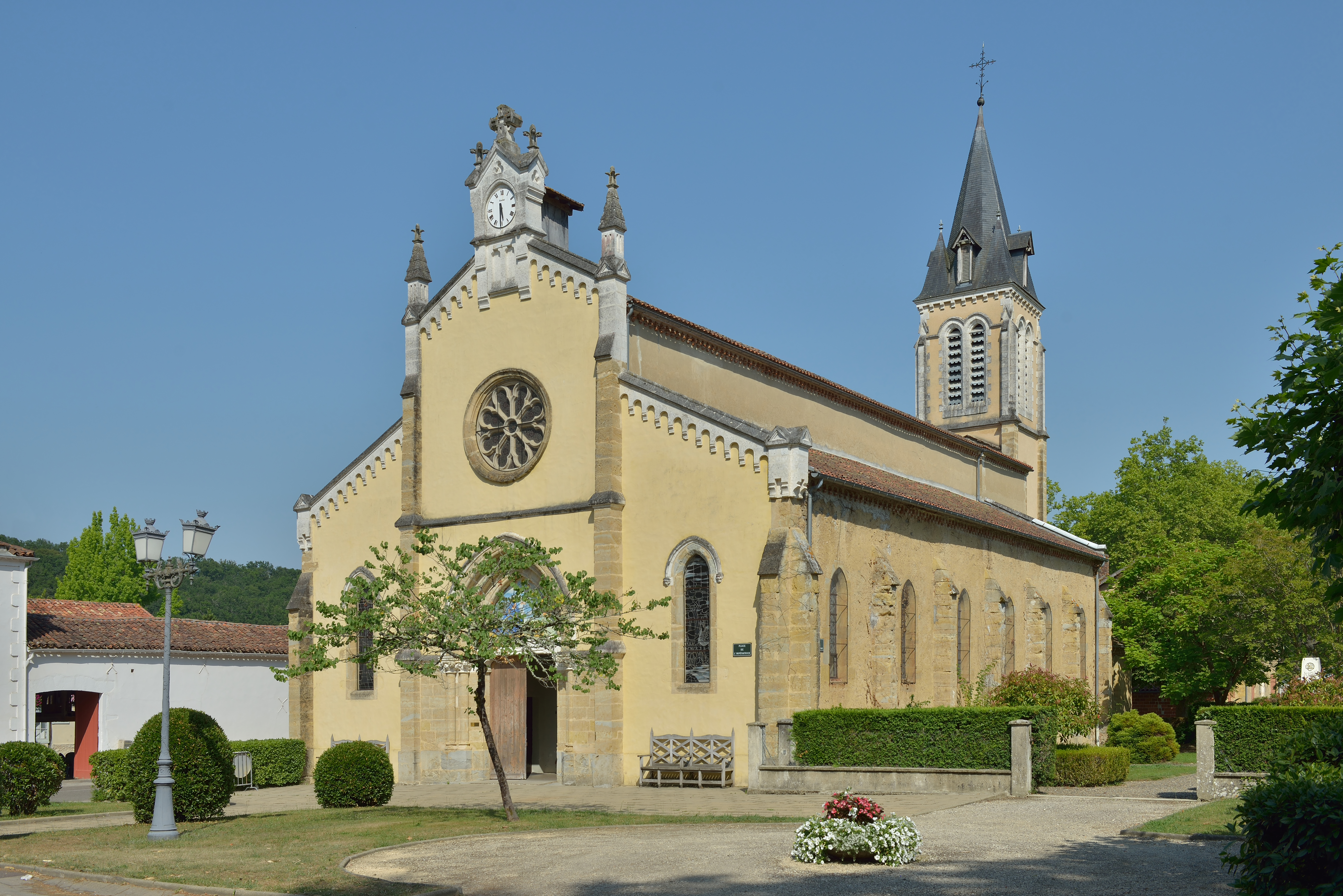 The parish church of Eugénie-les-Bains in France